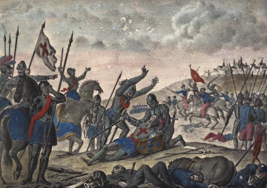 19th century lithograph depicting the heroic death of Gonçalo Mendes da Maia